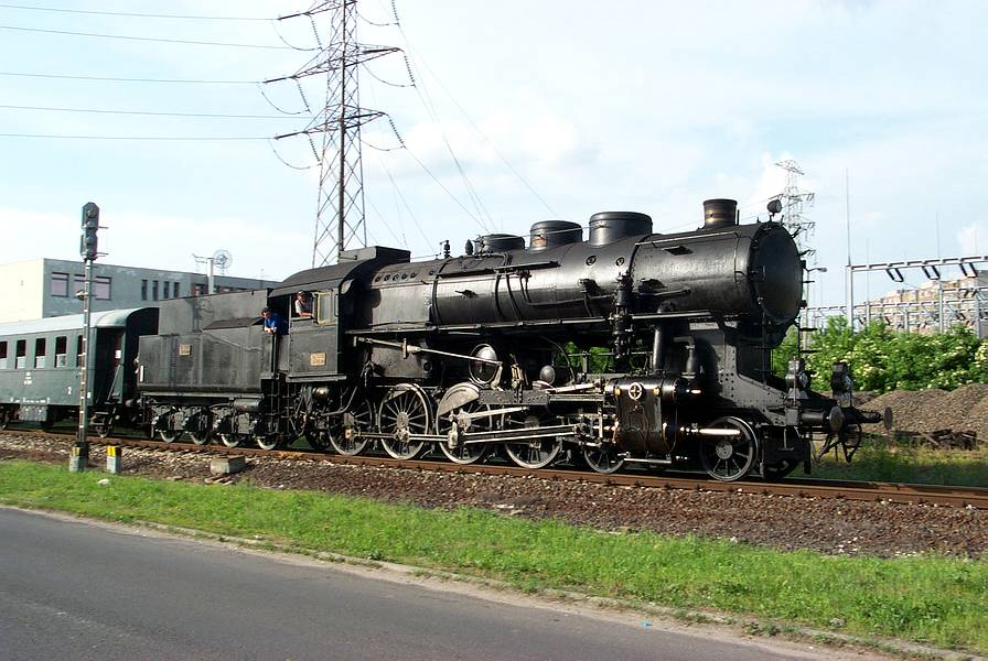 MÁV 424-009 with a nostalgia train